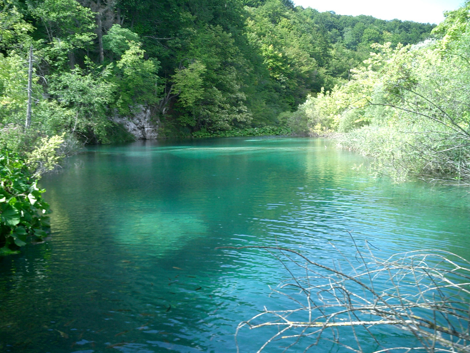 Plitvice Lakes National Park, Croatia